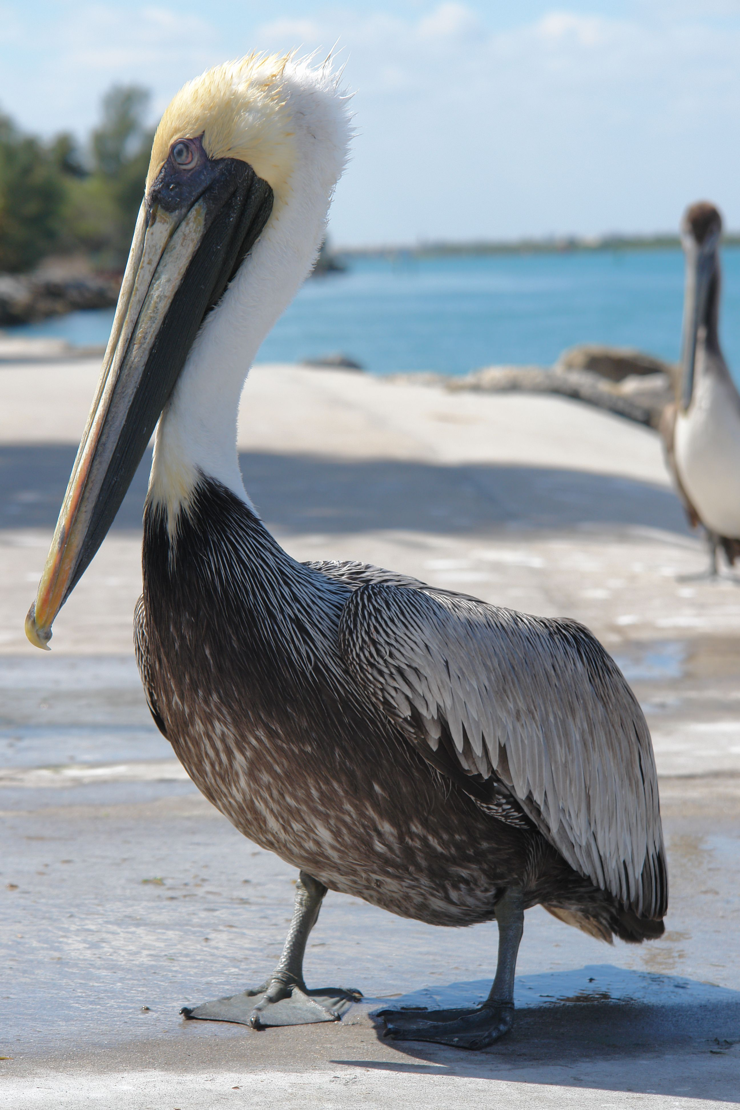 Brown Pelican at habor of Fort Pierce